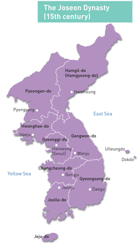 Map of the Joseon Dynasty (15th Century)